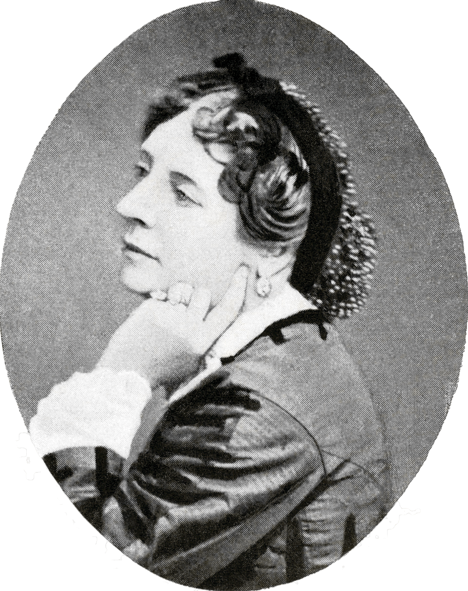 Portrait of Virginie Dejazet (1798–1875), French actress.